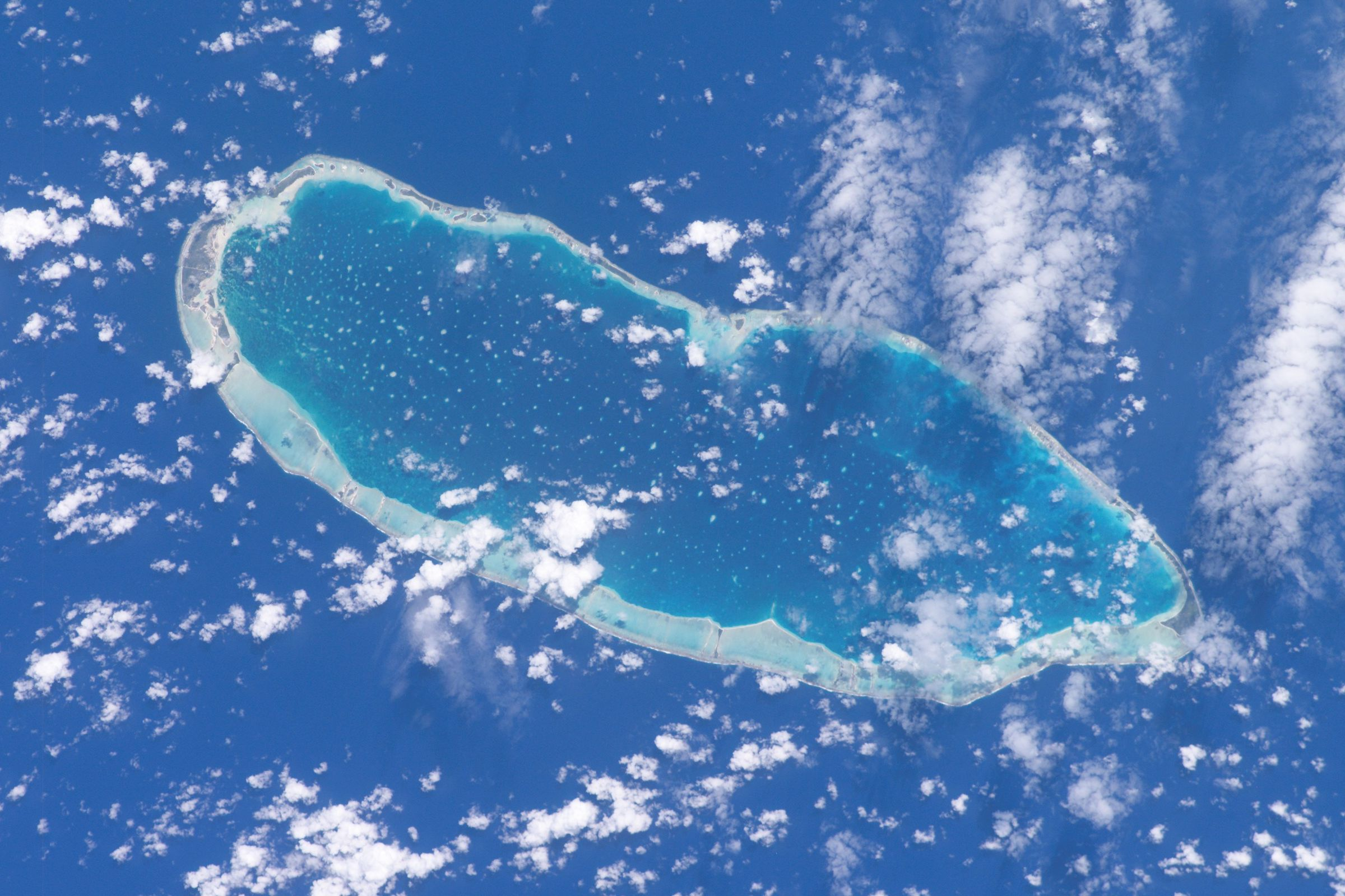 NASA astronaut image of Kaukura Atoll (Tuamotu Archipelago, French Polynesia) in the Pacific Ocean